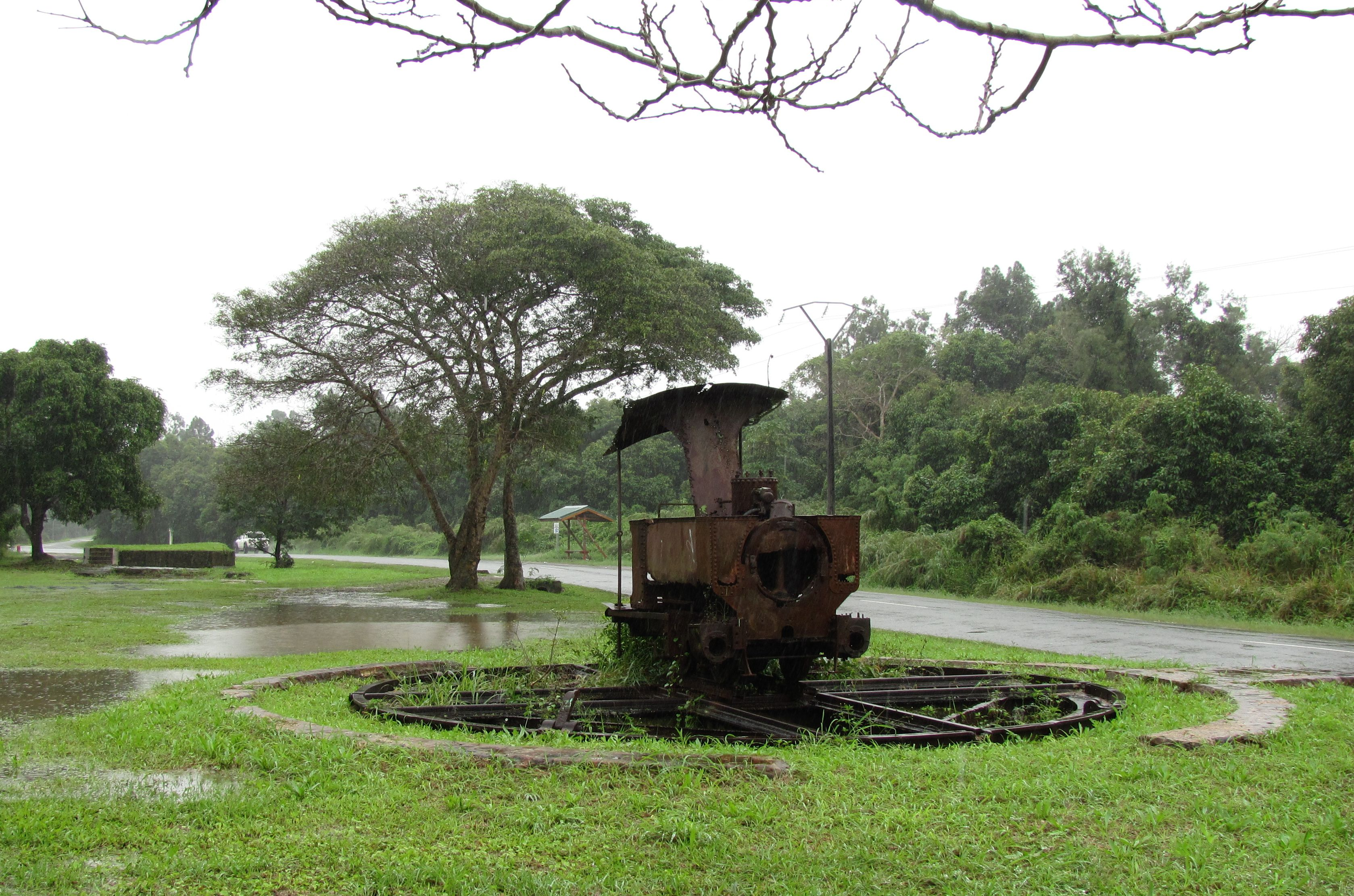 Locomotive at former railway station, Païta, New Caledonia